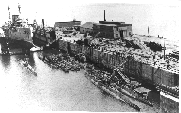 The British submarines HMS H5, H6, H7, H8, H9, and H10 with the drydocked British armored cruiser HMS Carnarvon (at upper left) in 1915. Vickers Floating Dock, Montreal Wharf, Canada